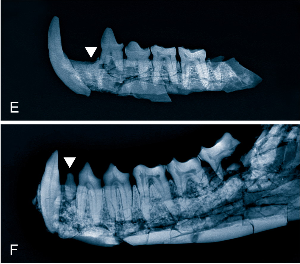 Radiographic comparison of middle Eocene primates from the Geiseltal fossil site in Saxony Anhalt, Central Germany. (E)— Protoadapis ignoratus (THALMANN, 1994), GMH XXII-549, part of type specimen, fragment of right mandible with C1, P3–4, M1, alveoli of P2 and M3 (mirrored). (F)— Protoadapis weigelti GINGERICH, 1977, GMH XXII-624, right mandibular ramus with P3-M3, root of a small single-rooted P2 and alveolus of C1, which is isolated (mirrored). Arrows show the position of P2. Arrows show the position of P2.